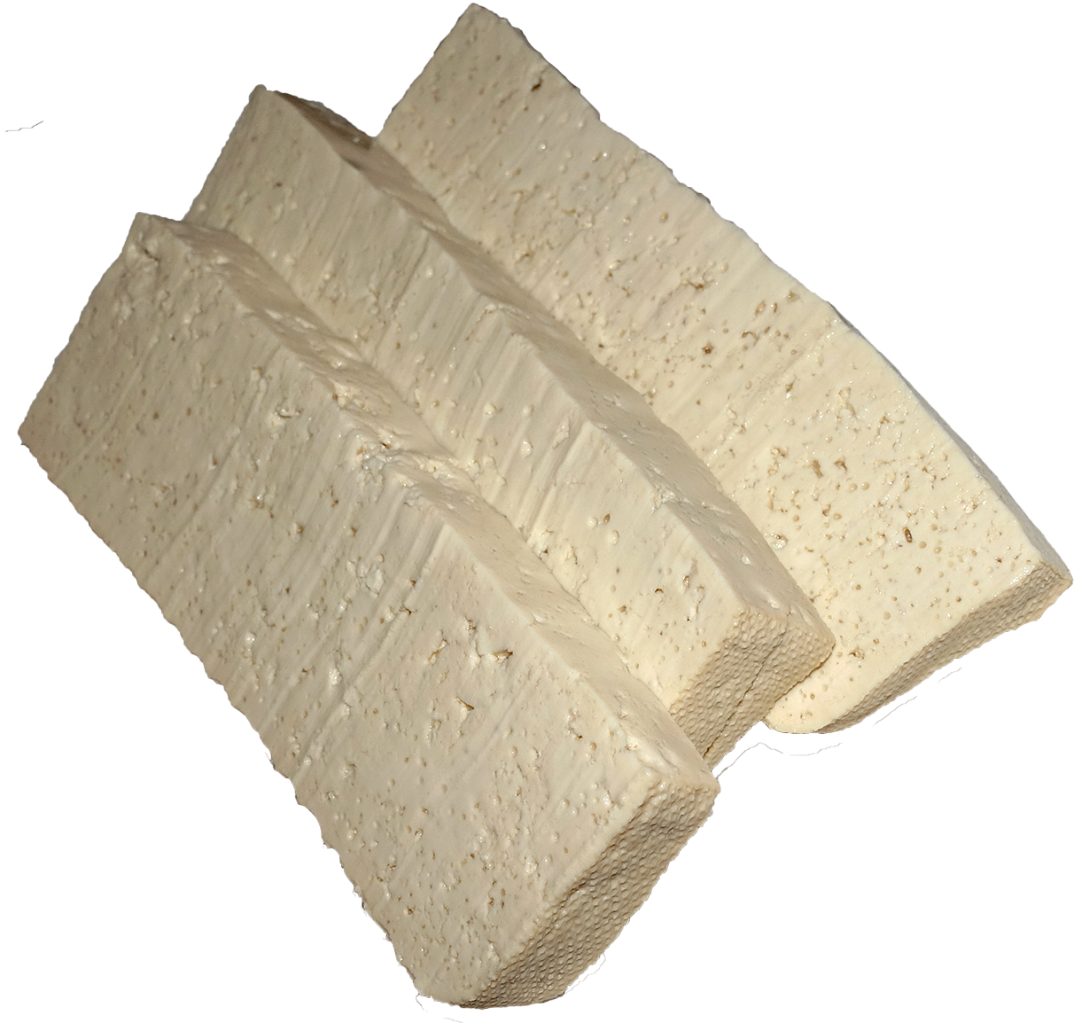 Slices of tofu